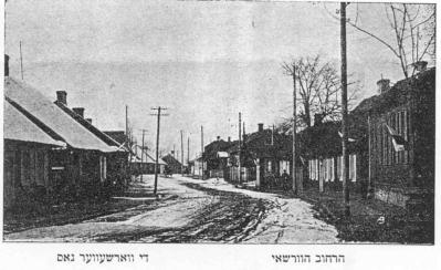 Photo of Warsaw Street in town of Radzyń Podlaski, Pre-WWII